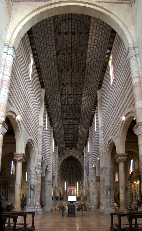 Basilica di San Zeno, Verona, Veneto, Italy. Nave.